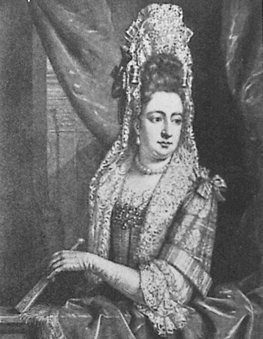 Portrait of Mary II of England (1662-1694) in a fontange headdress (lace stiffened with wire)